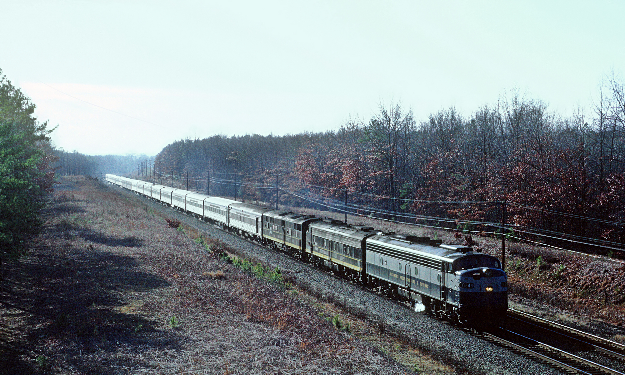 Richmond, Fredericksburg, and Potomac Railroad A Roger Puta Photograph